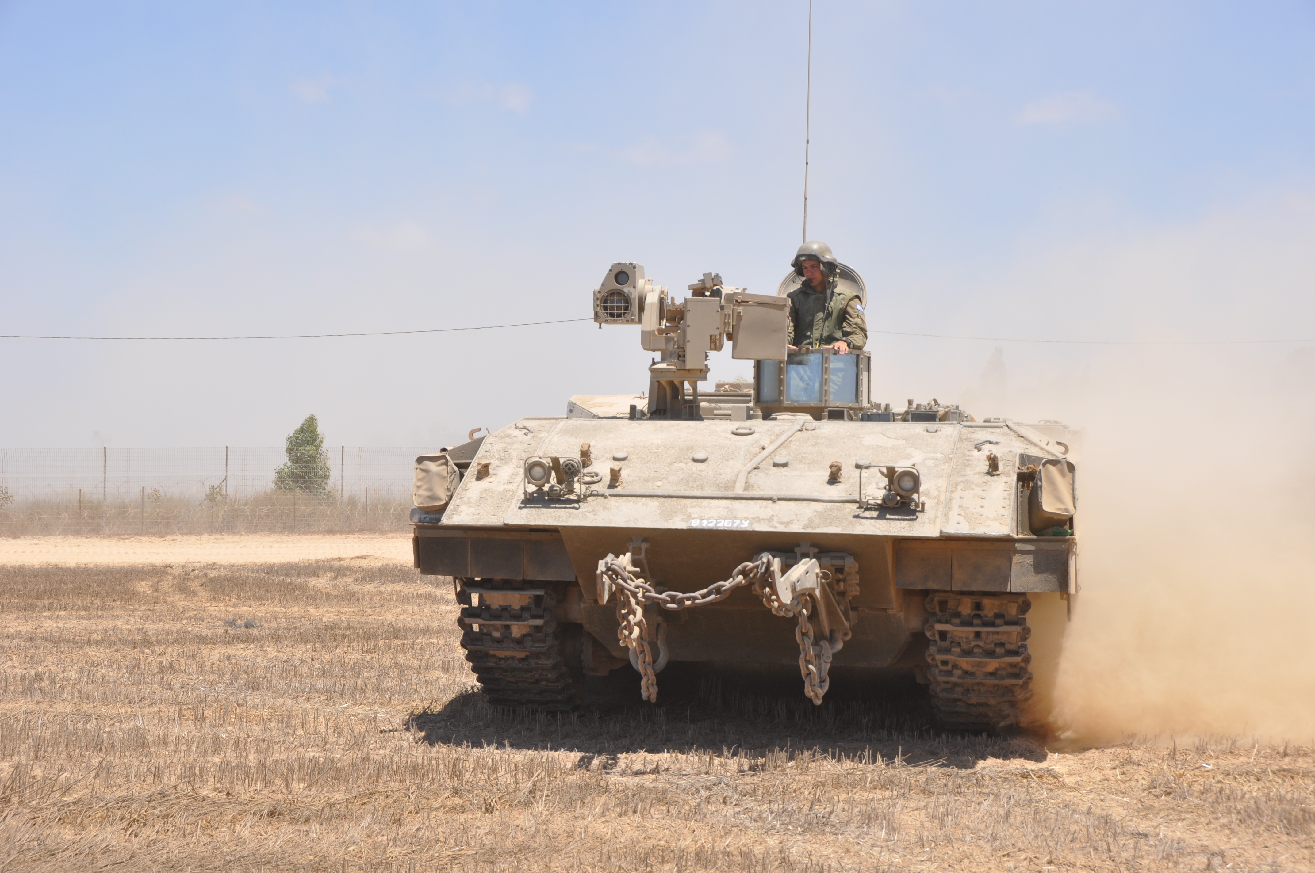 Armored vehicles from the 460 Brigade operating near the Gaza border 26/7/2014 For more updates: The Israel Defense Forces Facebook The Israel Defense Forces blog Follow us on Twitter